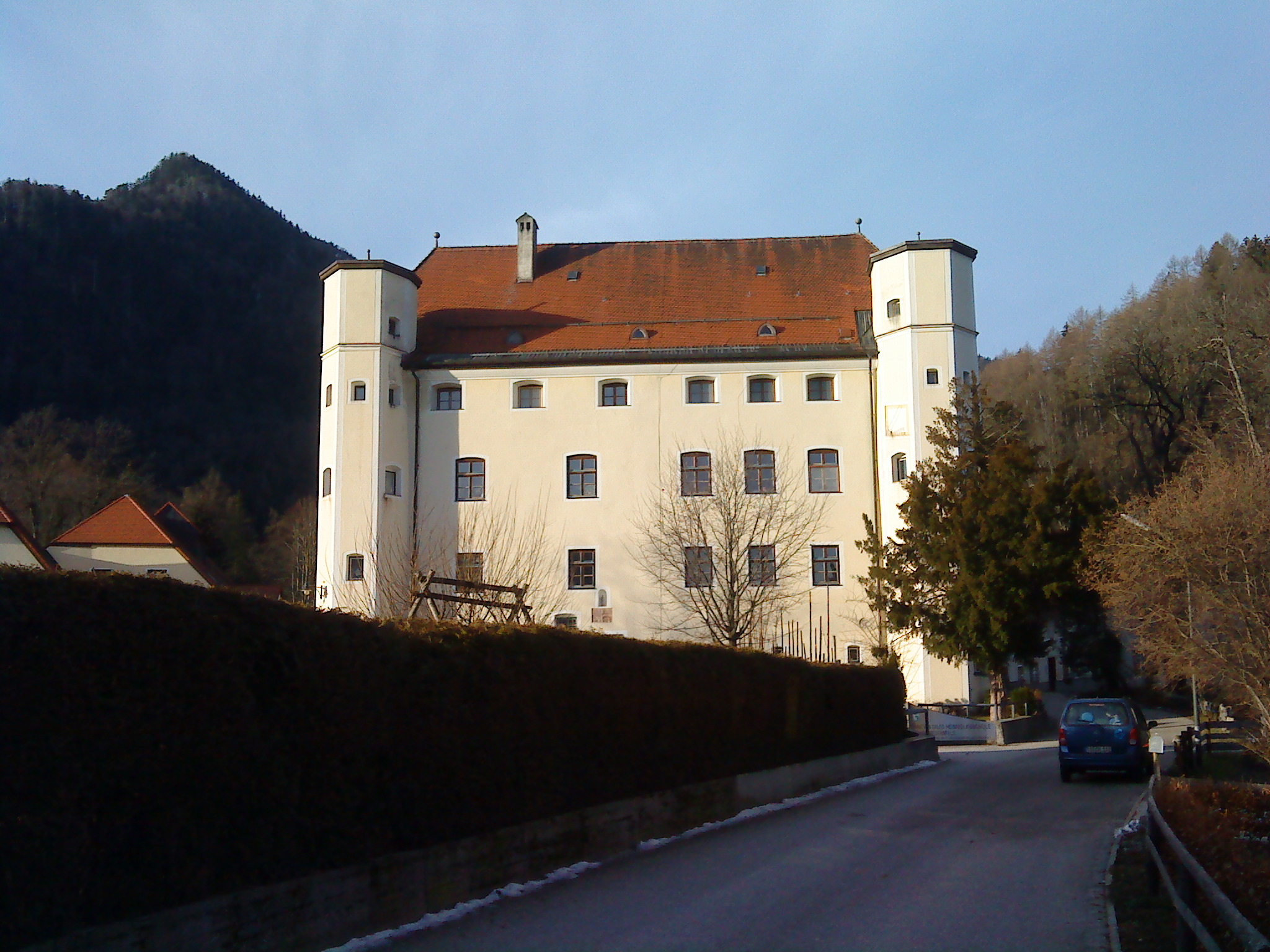 Niedernfels Castle